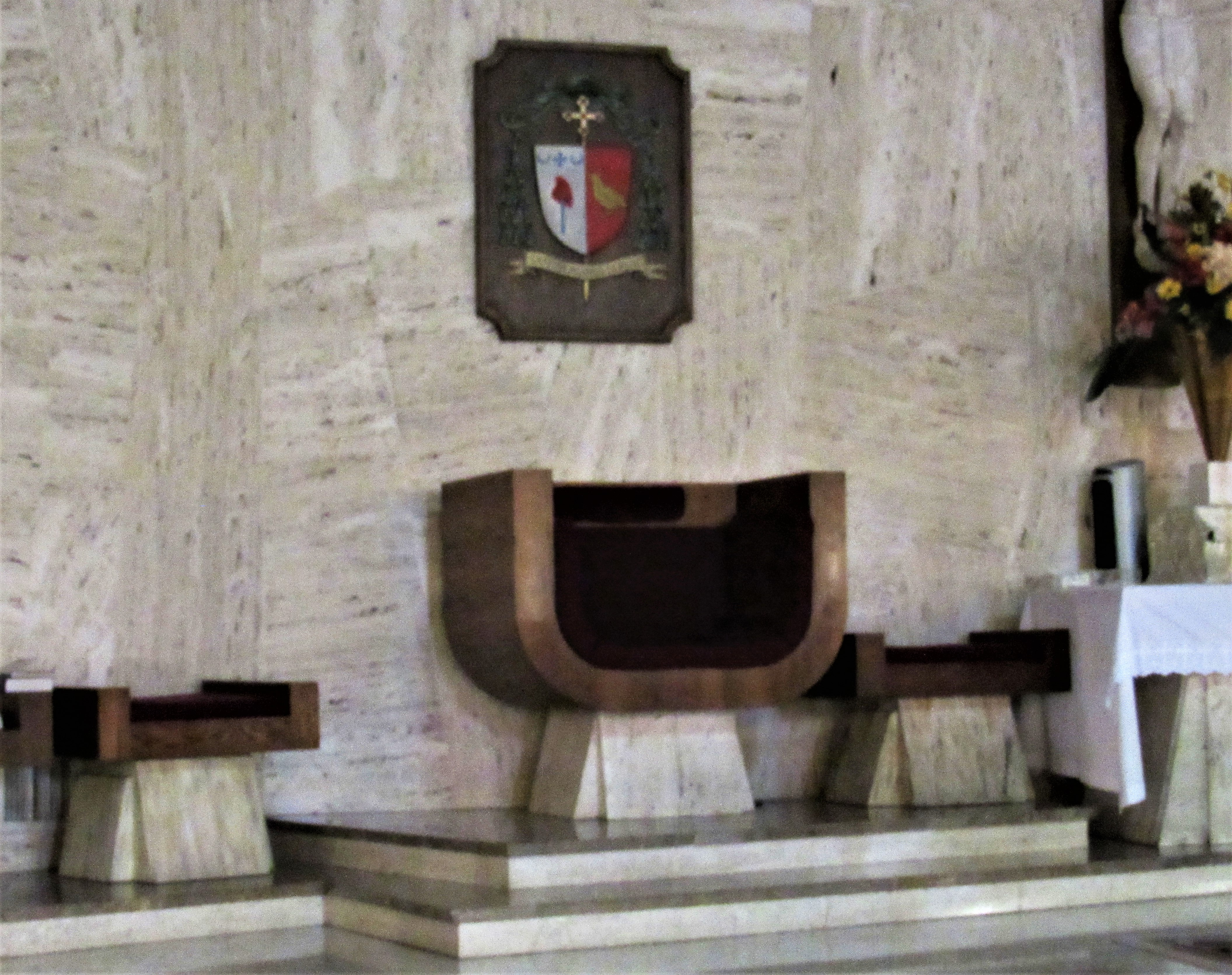 The cathedra in the Cathedral of Saint Joseph in Jefferson City, Missouri.